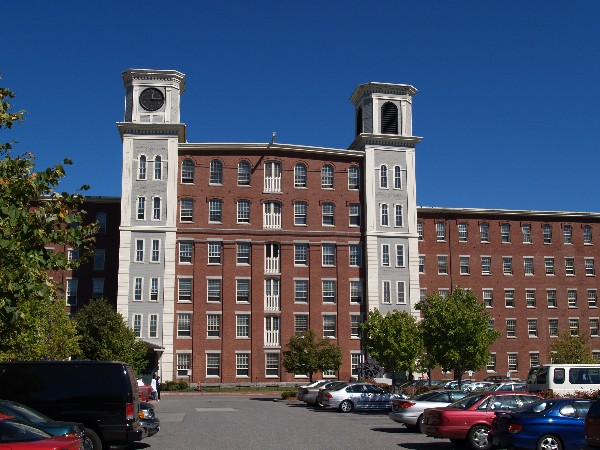 Massachusetts Mills, Lowell, Mass.